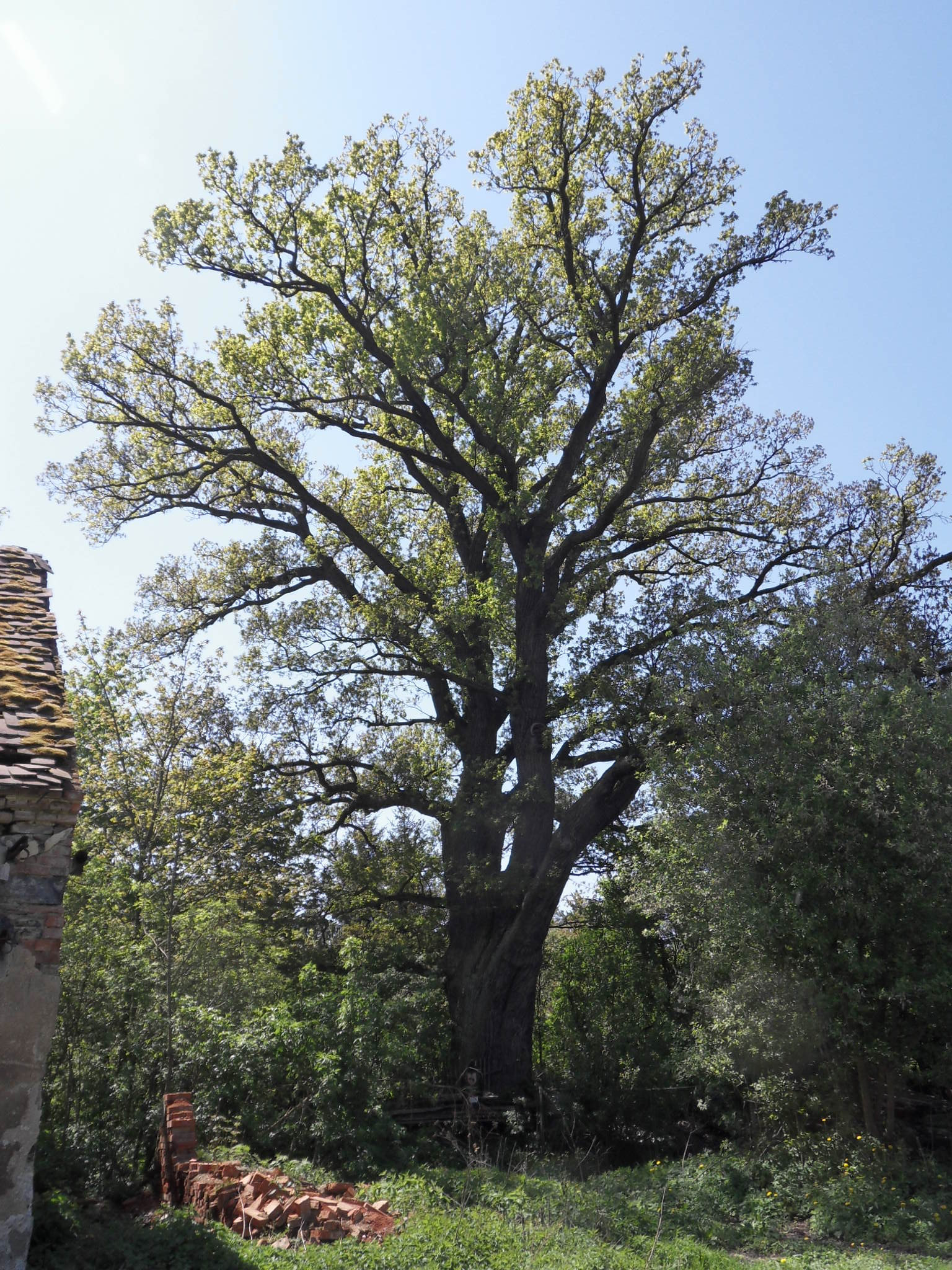 Pedunculate Oak in Zhůř, view from northeast